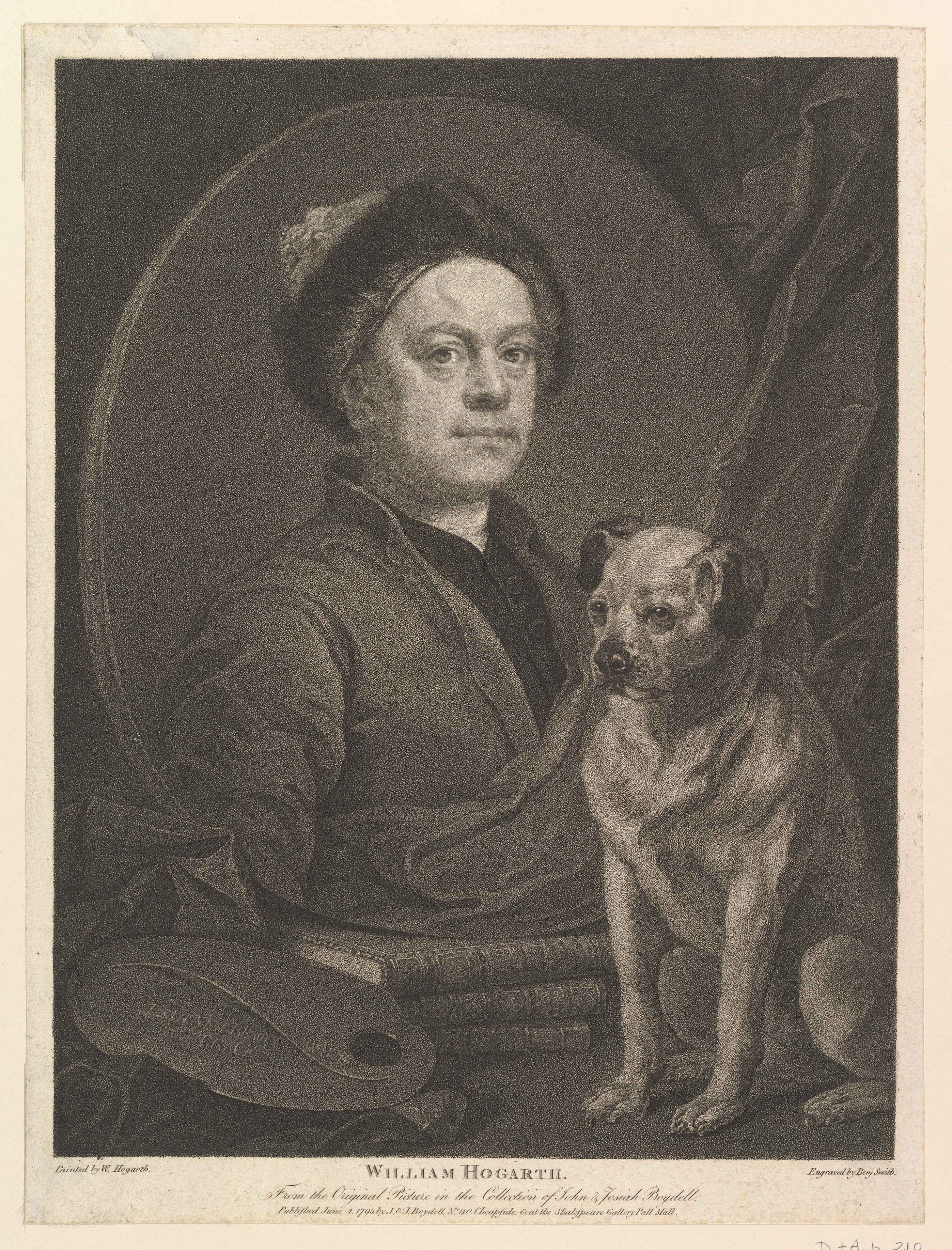 Print; Prints